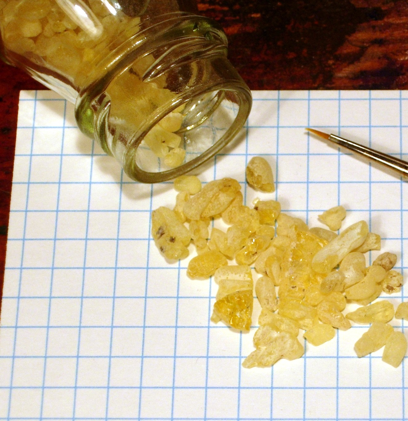 Sandarac tears 1/4" grid (approx. 6 mm squares) GIMP 2.6.6 auto color level adjust